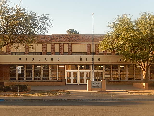 I took photo of Midland High School in Midland, TX, with Nikon camera.